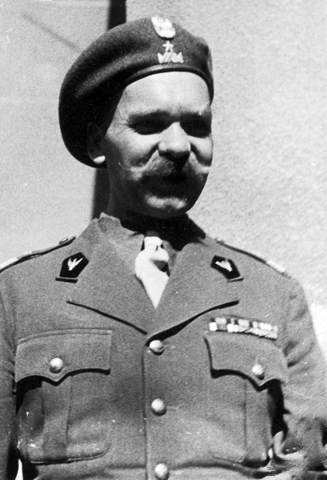 Gen. Nikodem Sulik. Polish General of WW II. One of the commanders in Battle of Monte Cassino (May 1944)